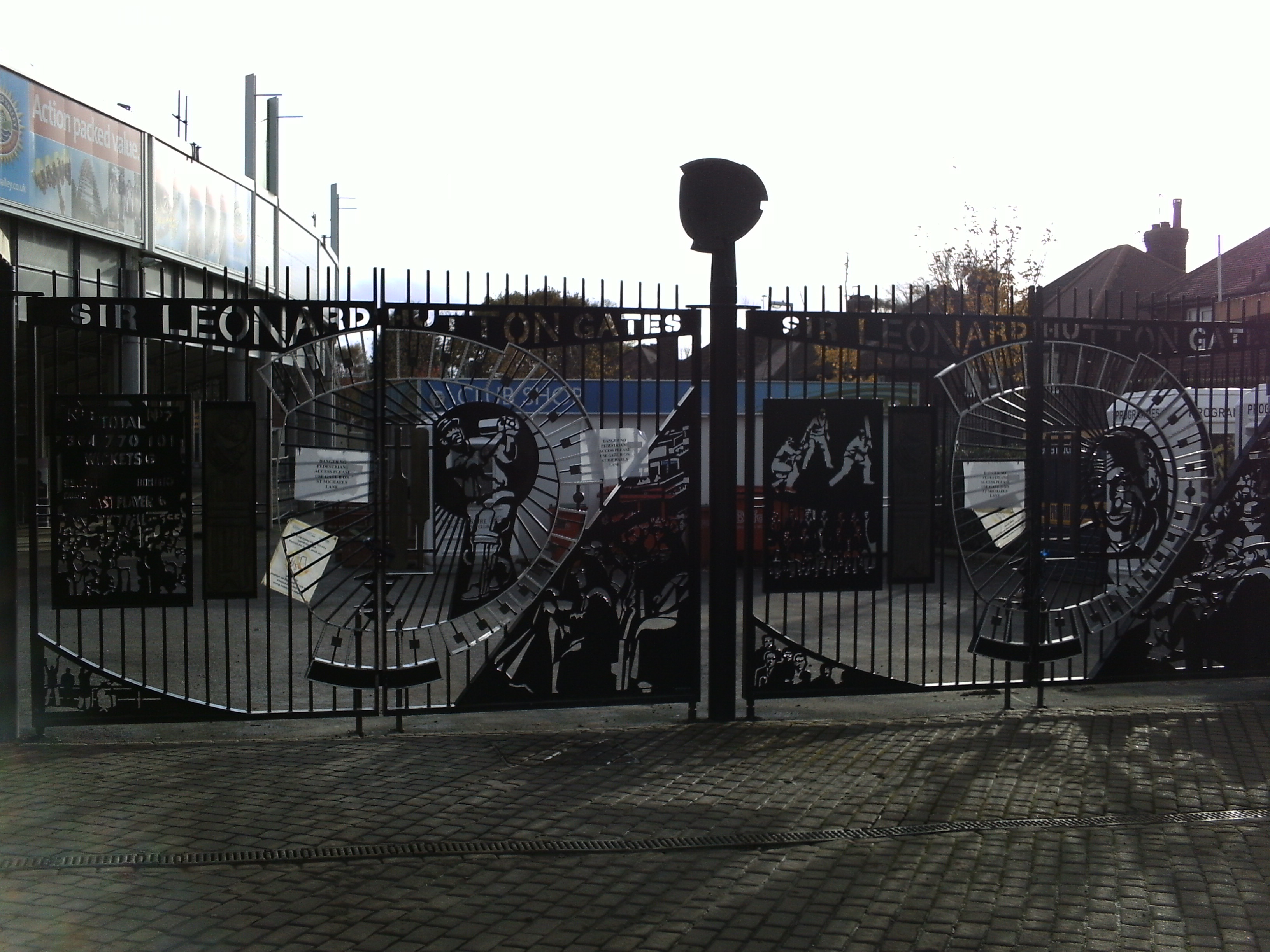 The Leonard Hutton Gates at the Headingley Stadium, Leeds